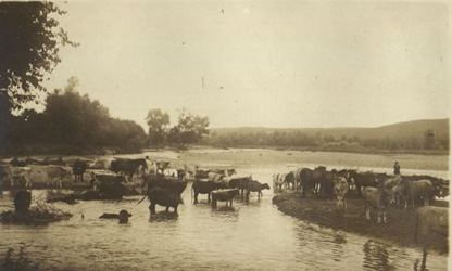 Bulgaria